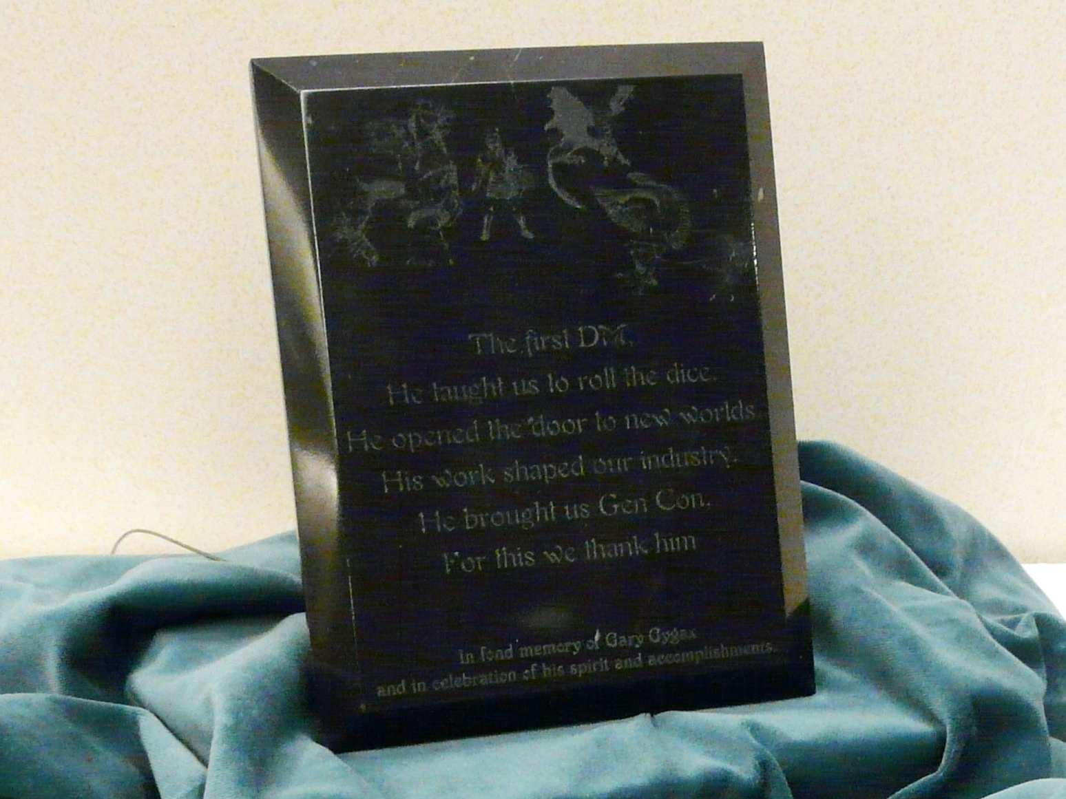 A plaque dedicated to Gary Gygax at Gen Con Indy 2008 head in Indianapolis, Indiana, USA.